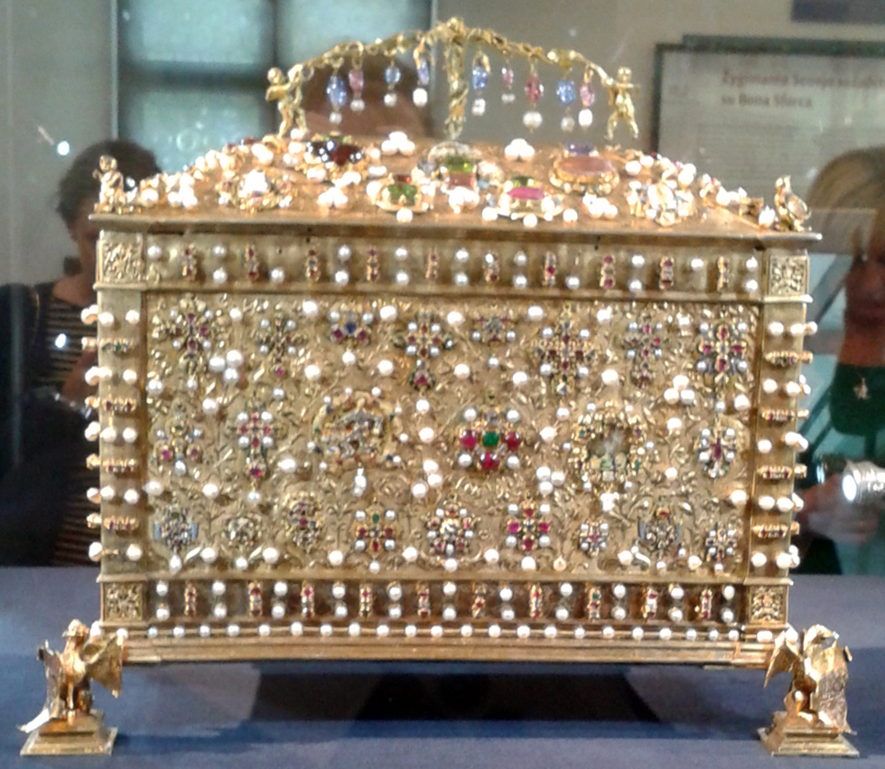 Jewellery coffret of Hedwig Jagiellon. Unknown author, Nuremberg, Germany,1533.